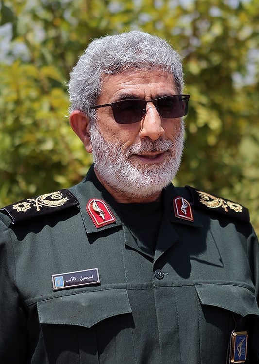 Esmail Ghaani